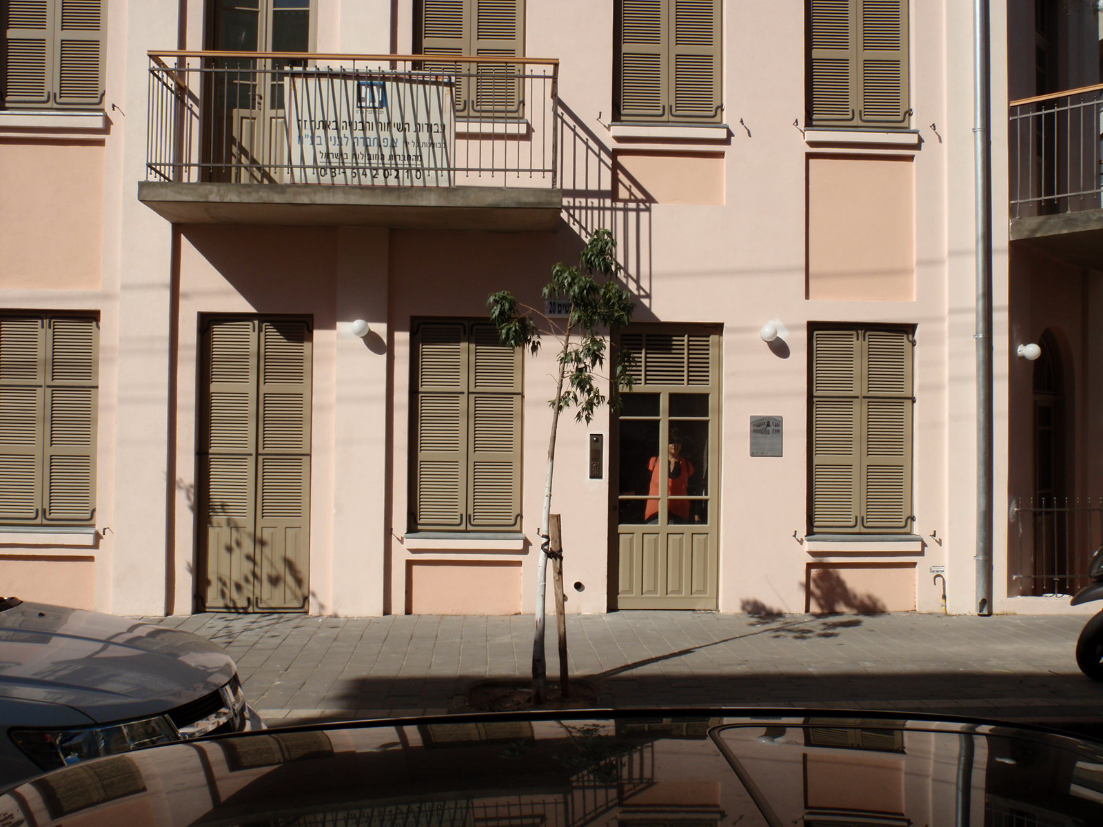 A memorial sign on the residence of Shoshana Sharira, Tel-Aviv, Hakovshim 20.